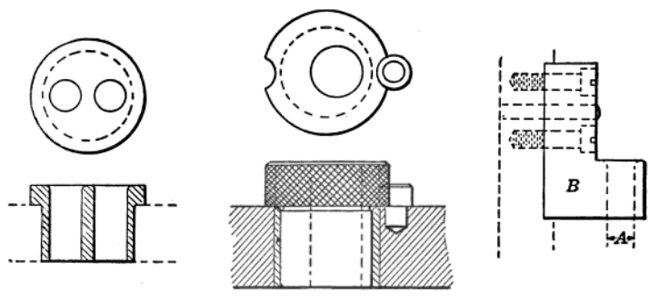 Three custom drill bushings: 1. A large renewable bushing with two holes that are too close for two individual bushings; 2. A renewable bushings with an eccentric pilot two notches on the outside of the head, which allow a pin to properly orient the bushing; 3. A right angle bushing.